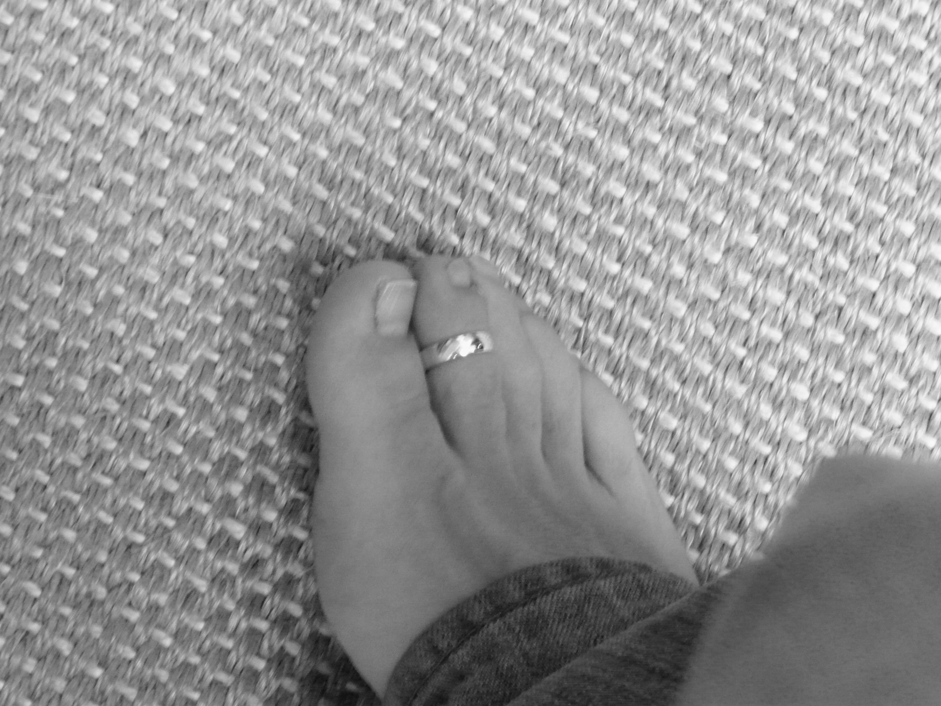 a toe ring